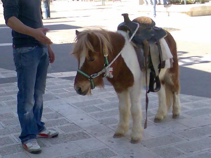 A pony. The picture was taken by Danny-w , at 3.3.07 , in the City of Beer Sheva, Israel.